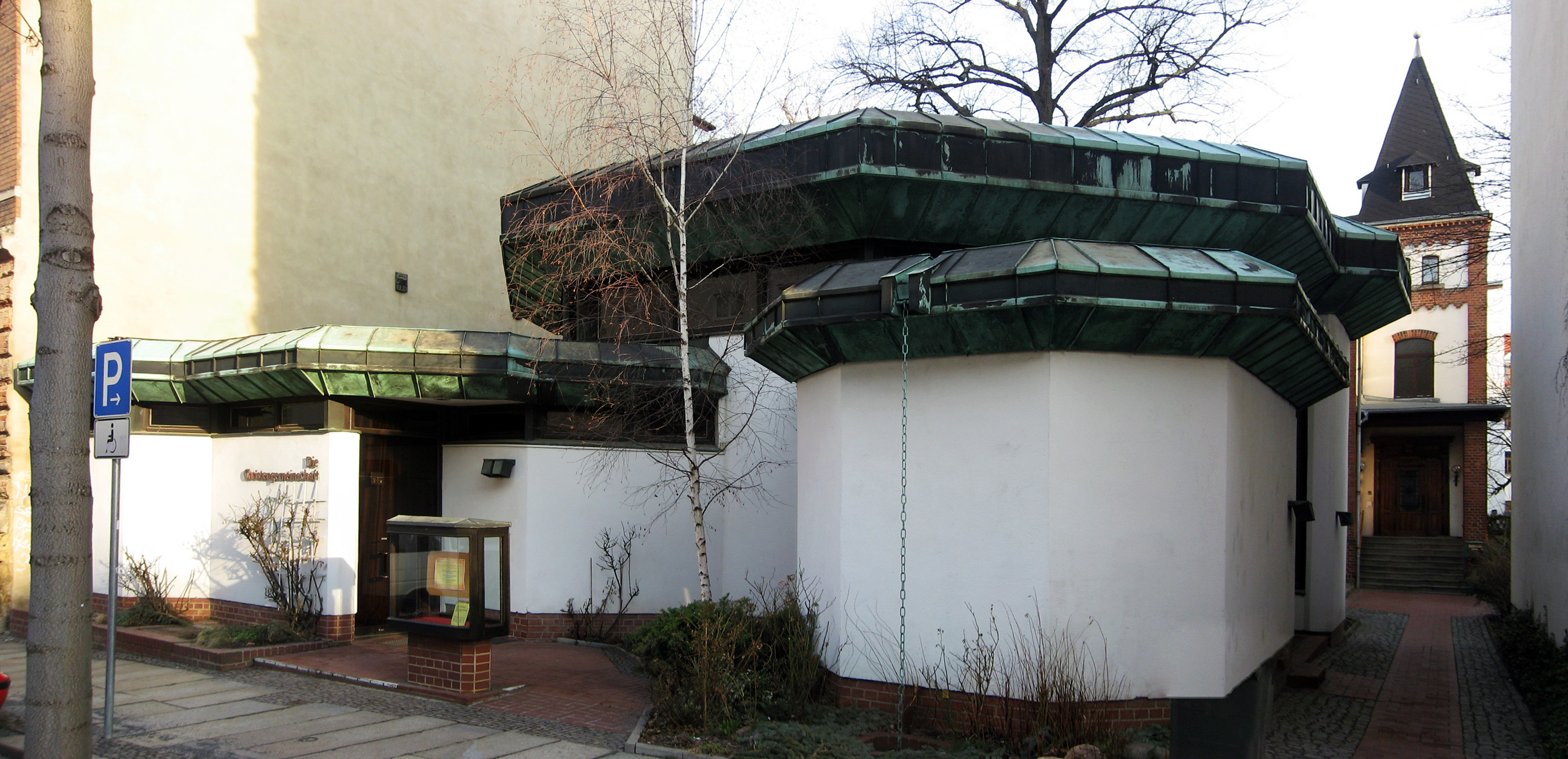 Christian Community Church in Leipzig, Schenkendorfstrasse 3